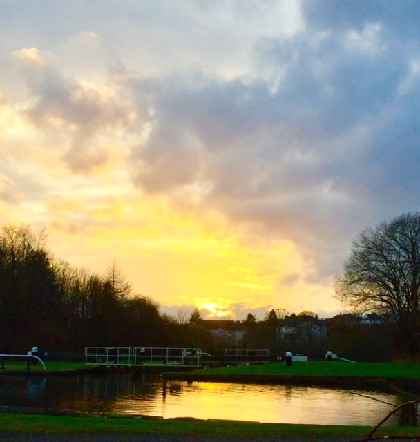 January sunset at Maryhill Locks